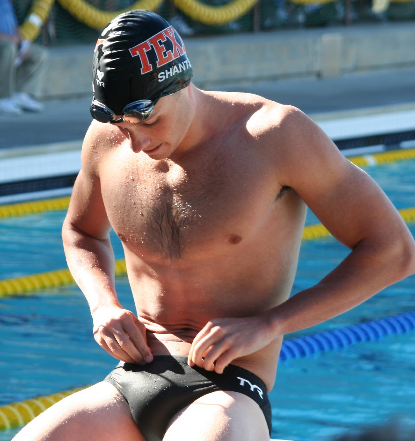 Eric Shanteau